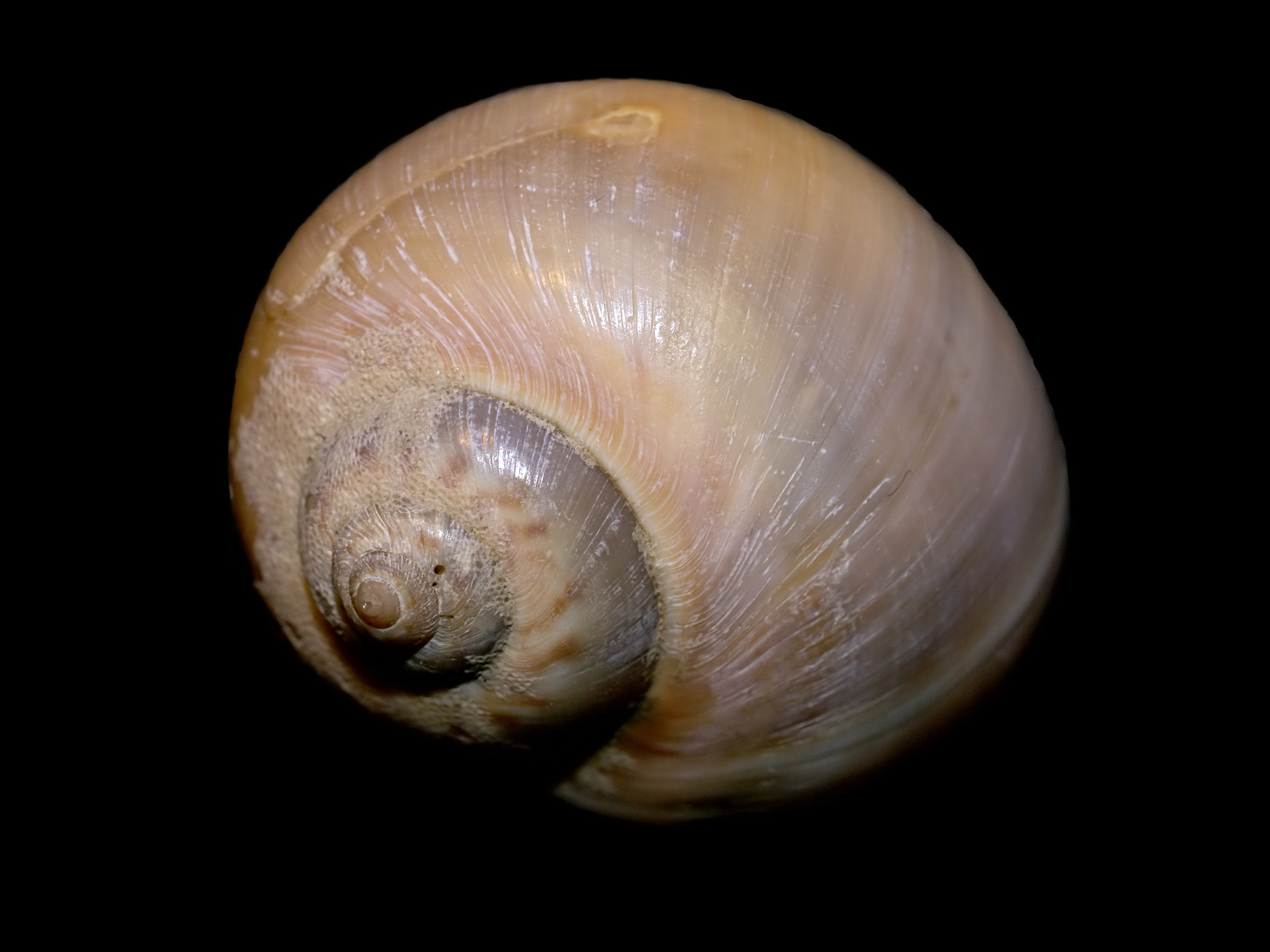 Necklace shell, from the west of the Belgian continental shelf.Studio image.